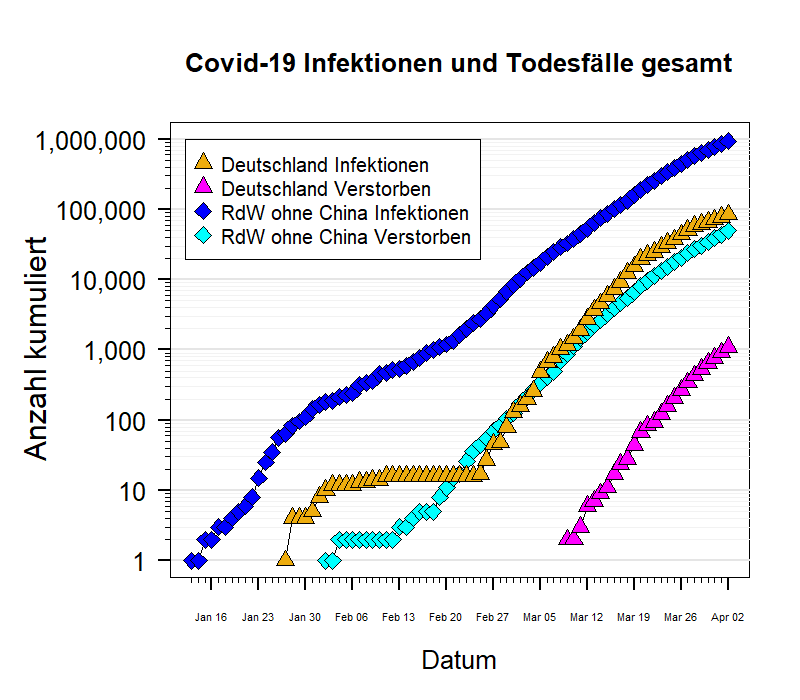 Covid-19 Infektionen und Todesfälle gesamt Deutschland vs RdW ohne China